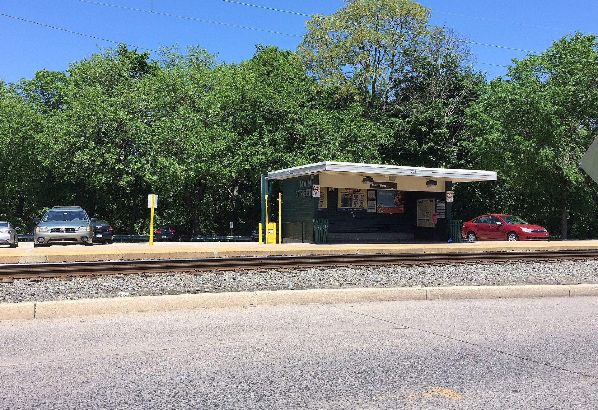 Platform of SEPTA's Main Street station in Norristown